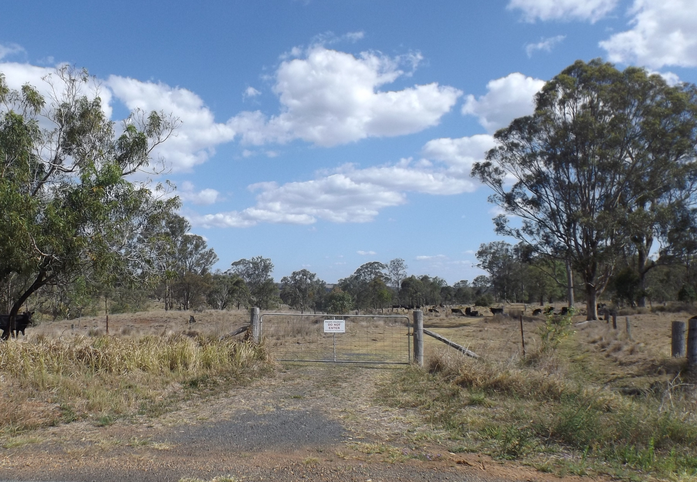 Photo of paddock at Whichello along Pechey Maclagan Road at Whichello in the Toowoomba Region local government area on the Darling Downs in Queensland, Australia.